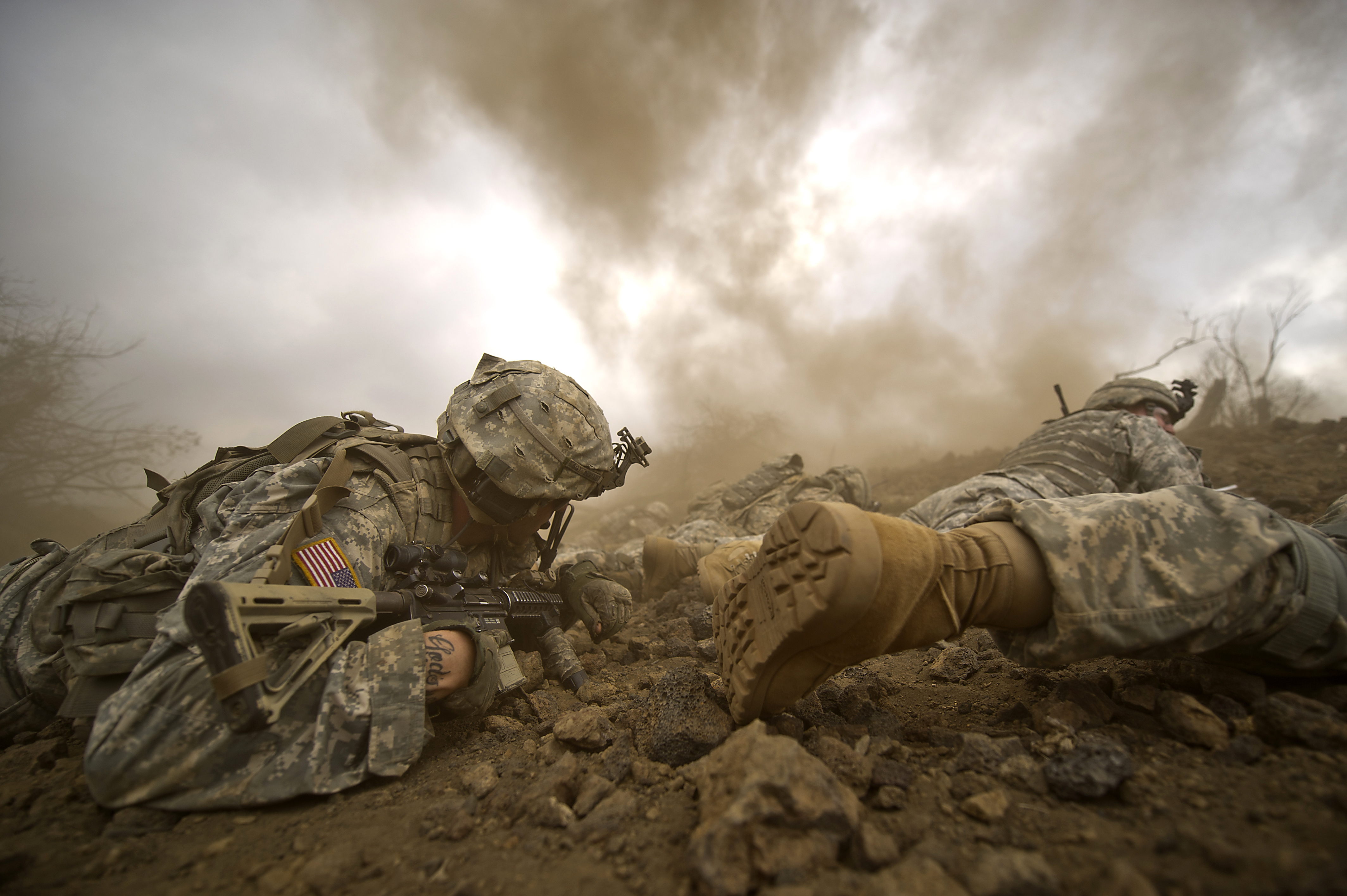 U.S. Army Sgt. Brandon Ingram, from Charlie Company, 1st Battalion, 21st Infantry Regiment, 2nd Stryker Brigade Combat Team, 25th Infantry Division, "Gimlets" take cover behind a hill Sept. 20, 2012, as soldiers with the 66th Engineer Company, 225th Brigade Support Battalion, detonate a Bangalore explosive to clear a barbed wire obstacle during a live fire exercise at the Pohakuloa Training Area, on Hawaii's Big Island. Soldiers from the 1st Battalion, 21st Infantry Regiment, are conducting a month-long exercise which is focused on platoon level collective training with enabler integration. The training will culminate in a combined arms live fire exercise later this month.